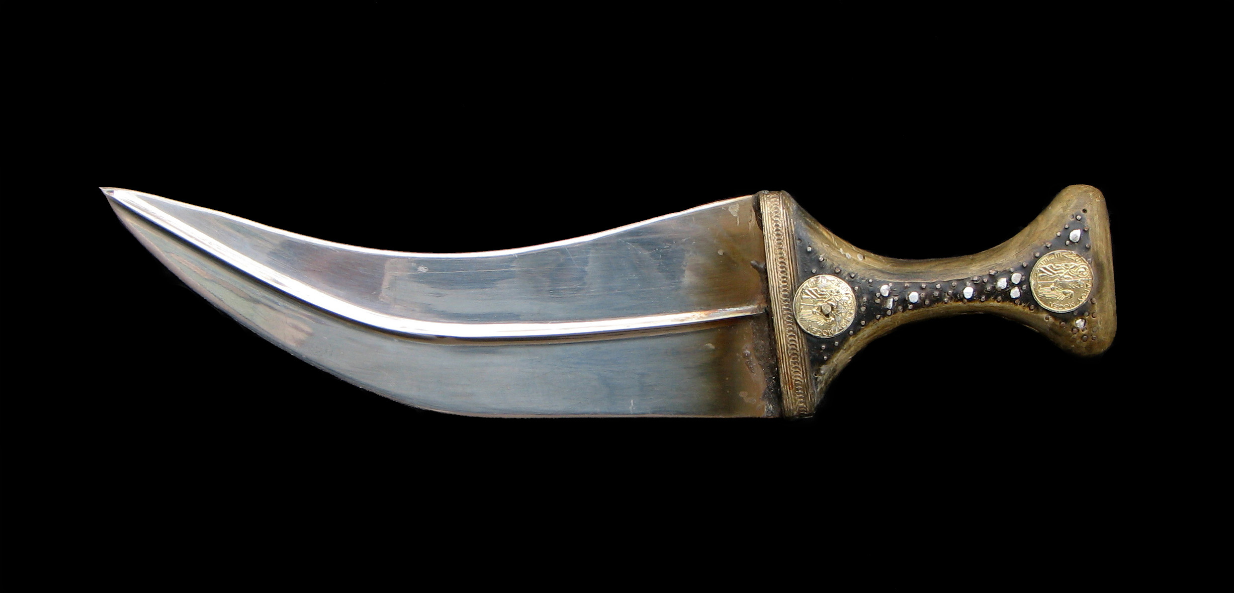 Jambiya from Yemen. This one has been bought at the souq of Sana'a in 1986. The blade is of steel. The hilt is made of hard wood but I don't know what is the kind of wood.